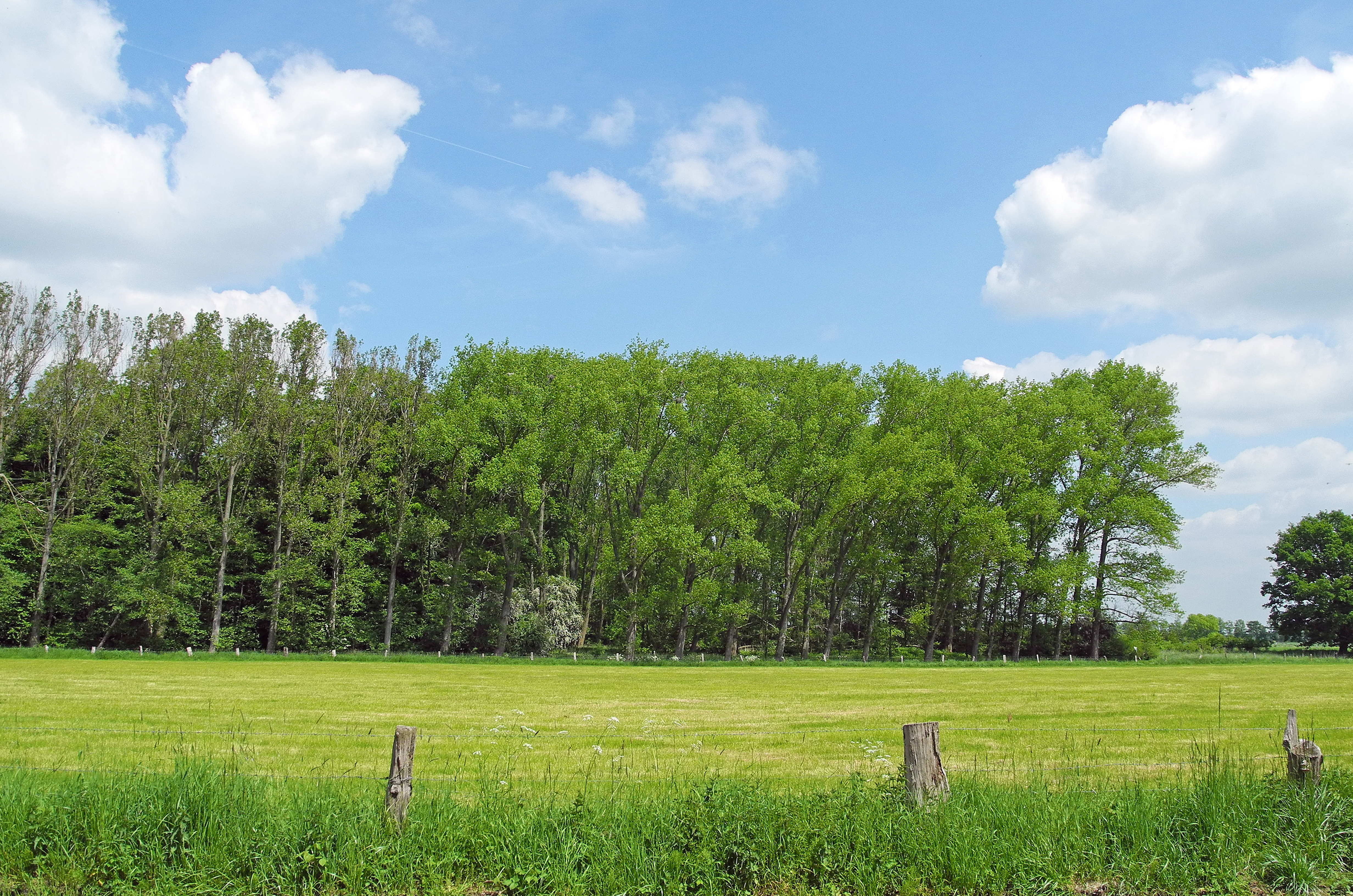 Springtime. View to the nature reserve "Buchhorster Auwald" in rural district Nienburg/Weser, Lower Saxony.